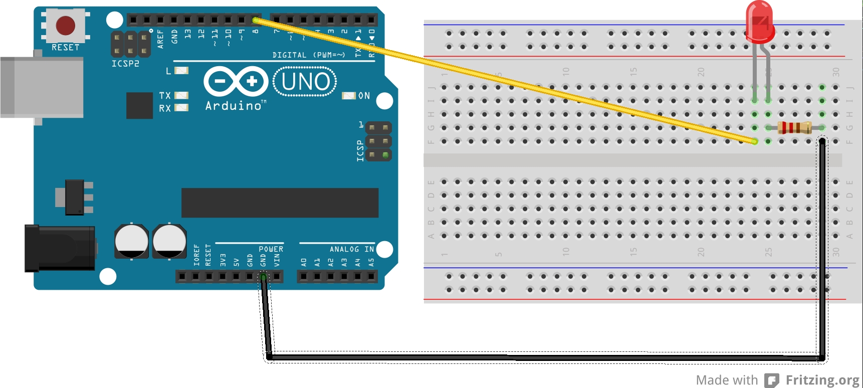 all is in the title !